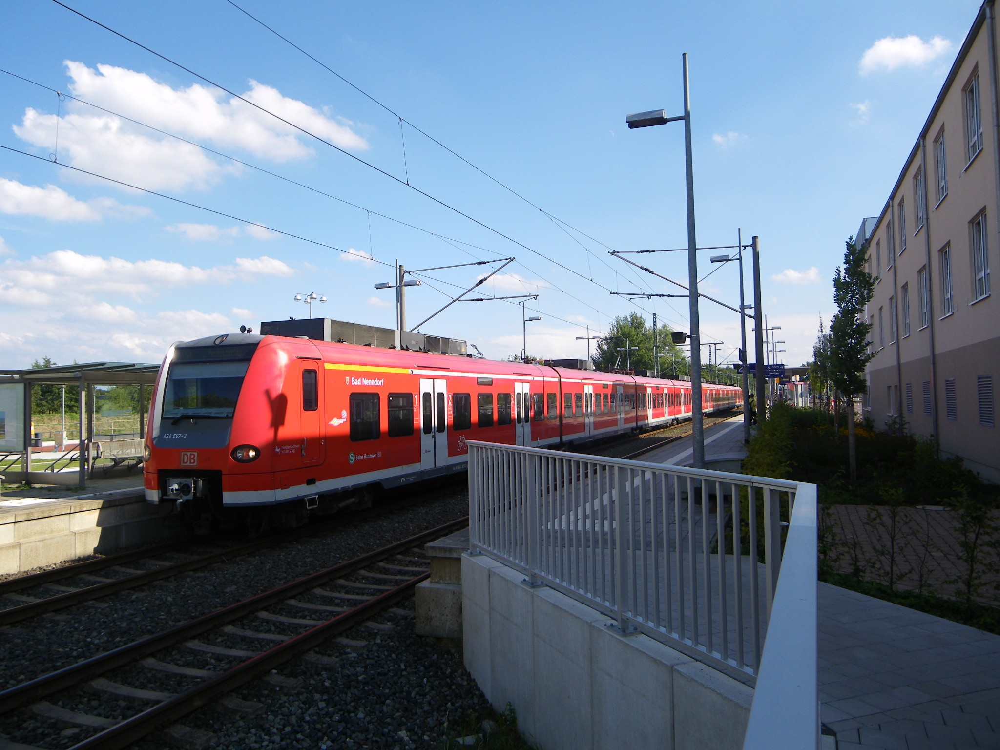 Railwaystation Langenhagen-Kaltenweide